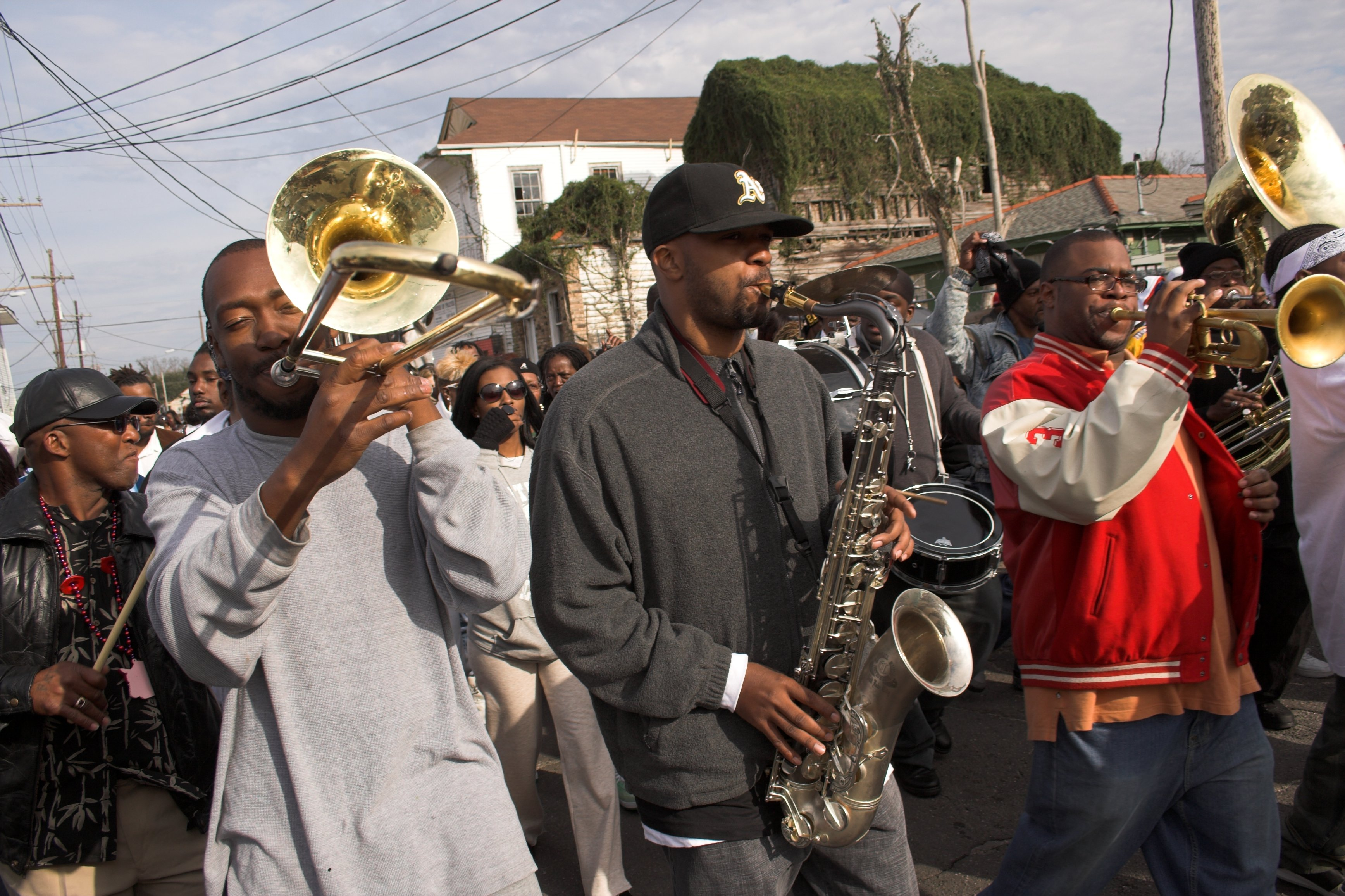 Lady Jetsetters Marching Club, Central City New Orleans. Stooges Brass Band.